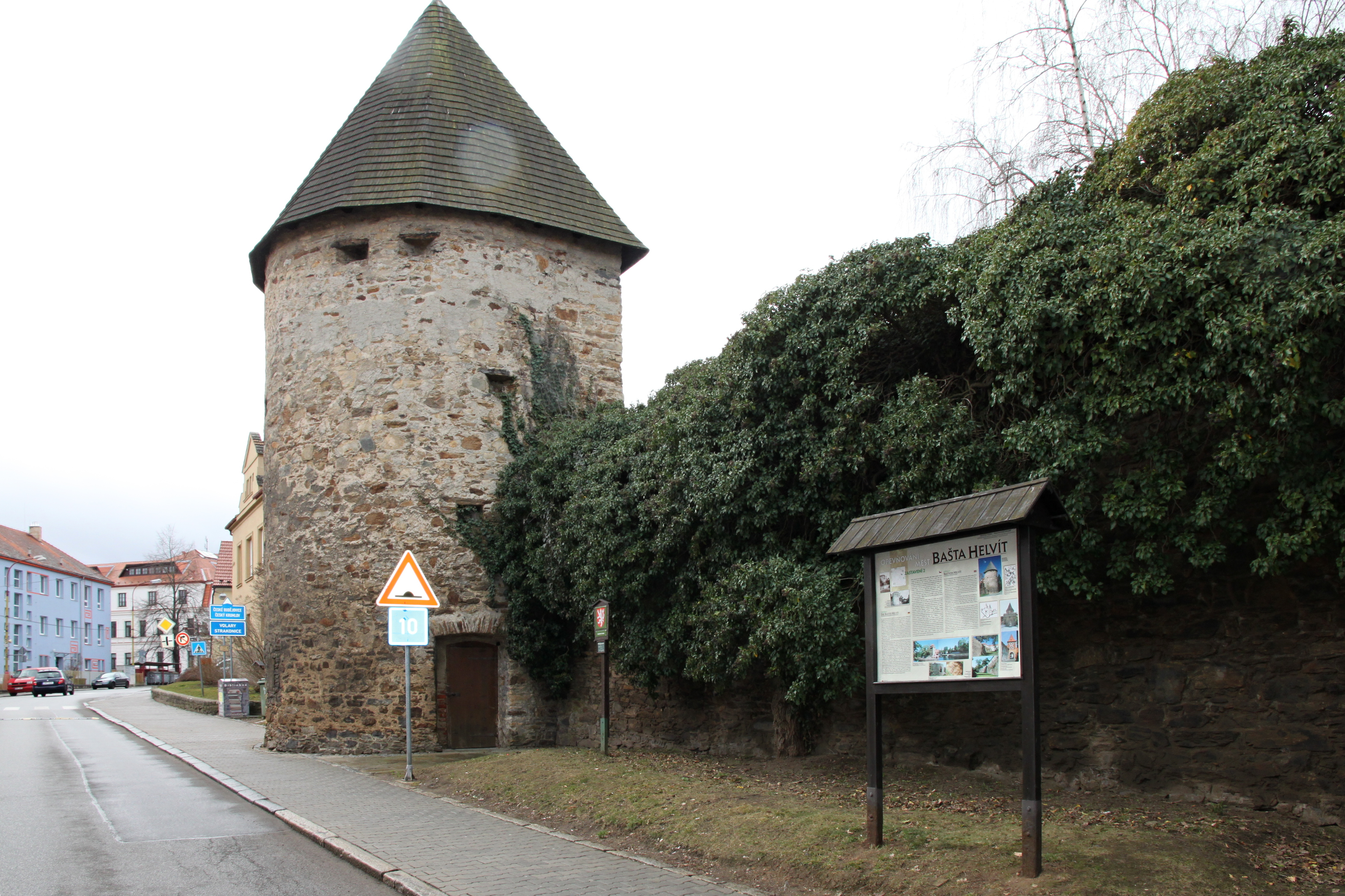 Educational trail Prachatické hradby (Municipal fortifications), stop No. 2 – bastion Helvít. Prachatice, South Bohemian Region, Czechia.